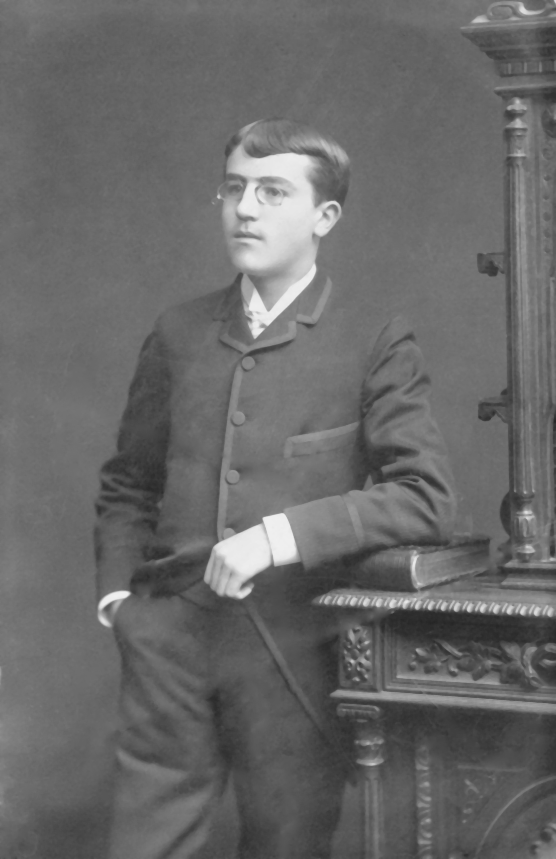 José Gutiérrez Guerra 1883